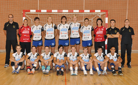 Plantilla del Elda Prestigio 2009/10